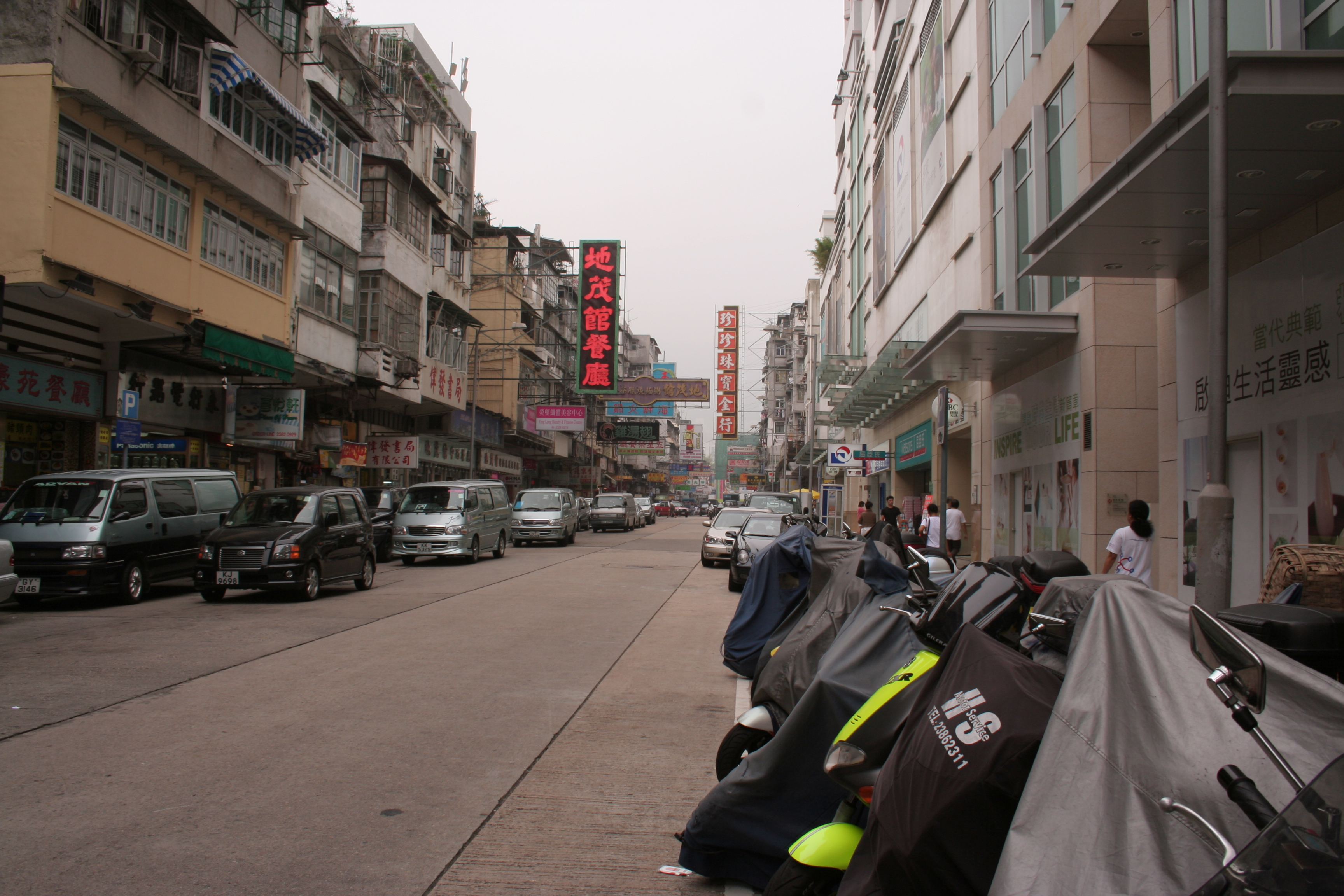 A view of Fuk Lo Tsun Road in Kowloon City. Taken by Linus Lee (Hk_linus) in April 2006.